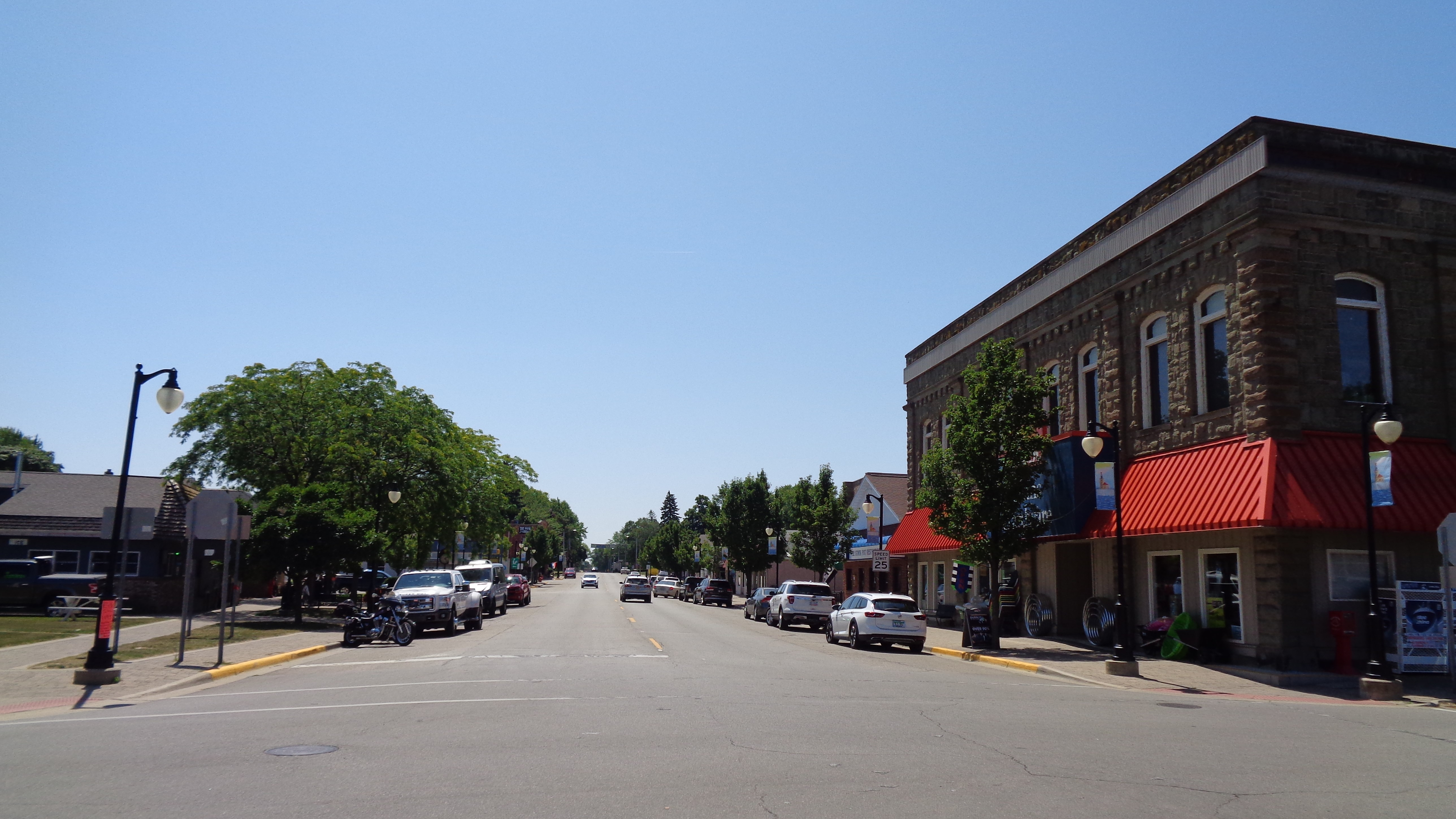 Depicted place: Port Austin